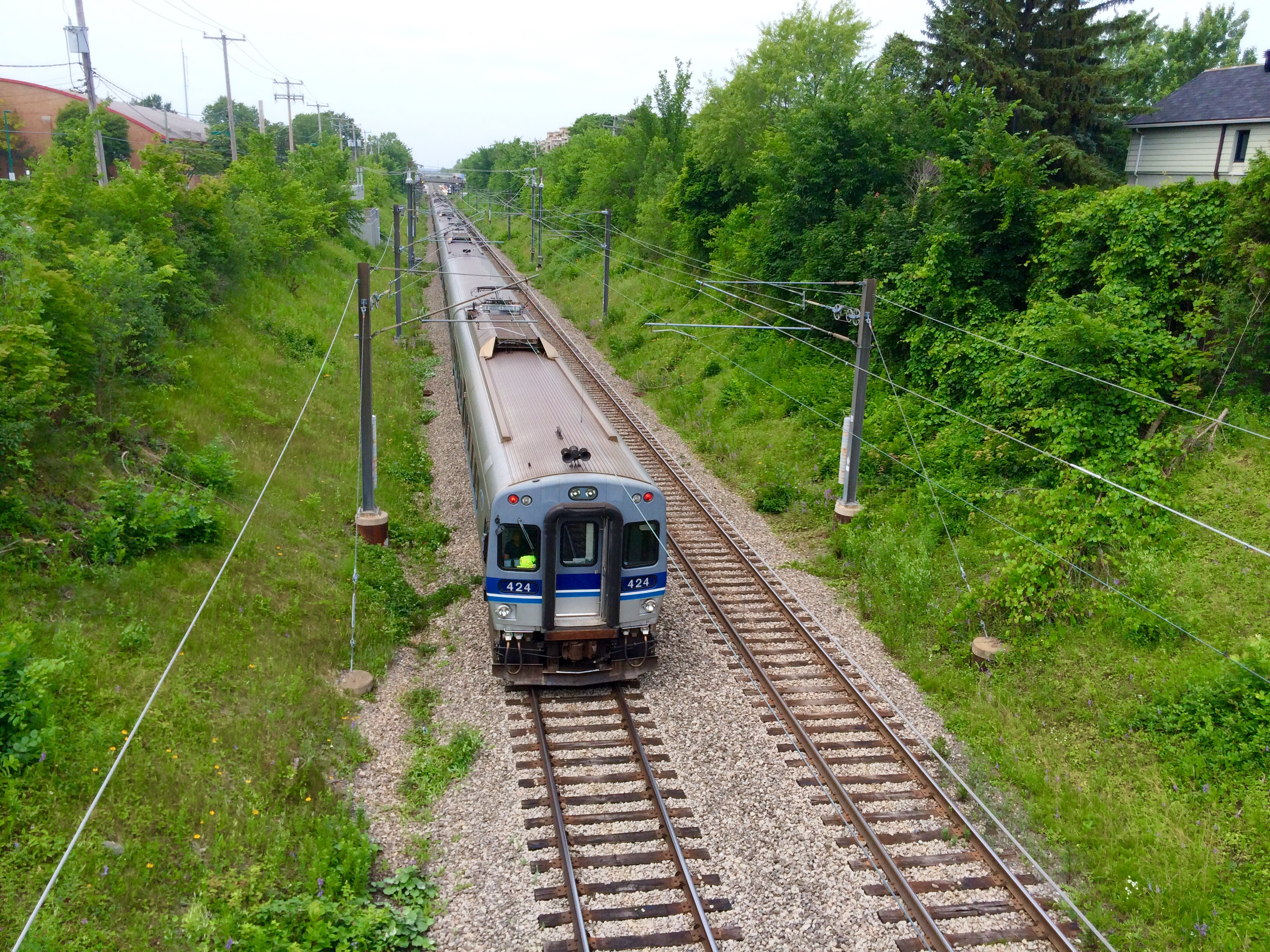 AMT train